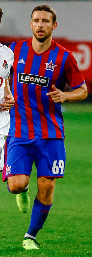 Denys Dedechko with FC SKA-Khabarovsk in a game against FC Lokomotiv Moscow.